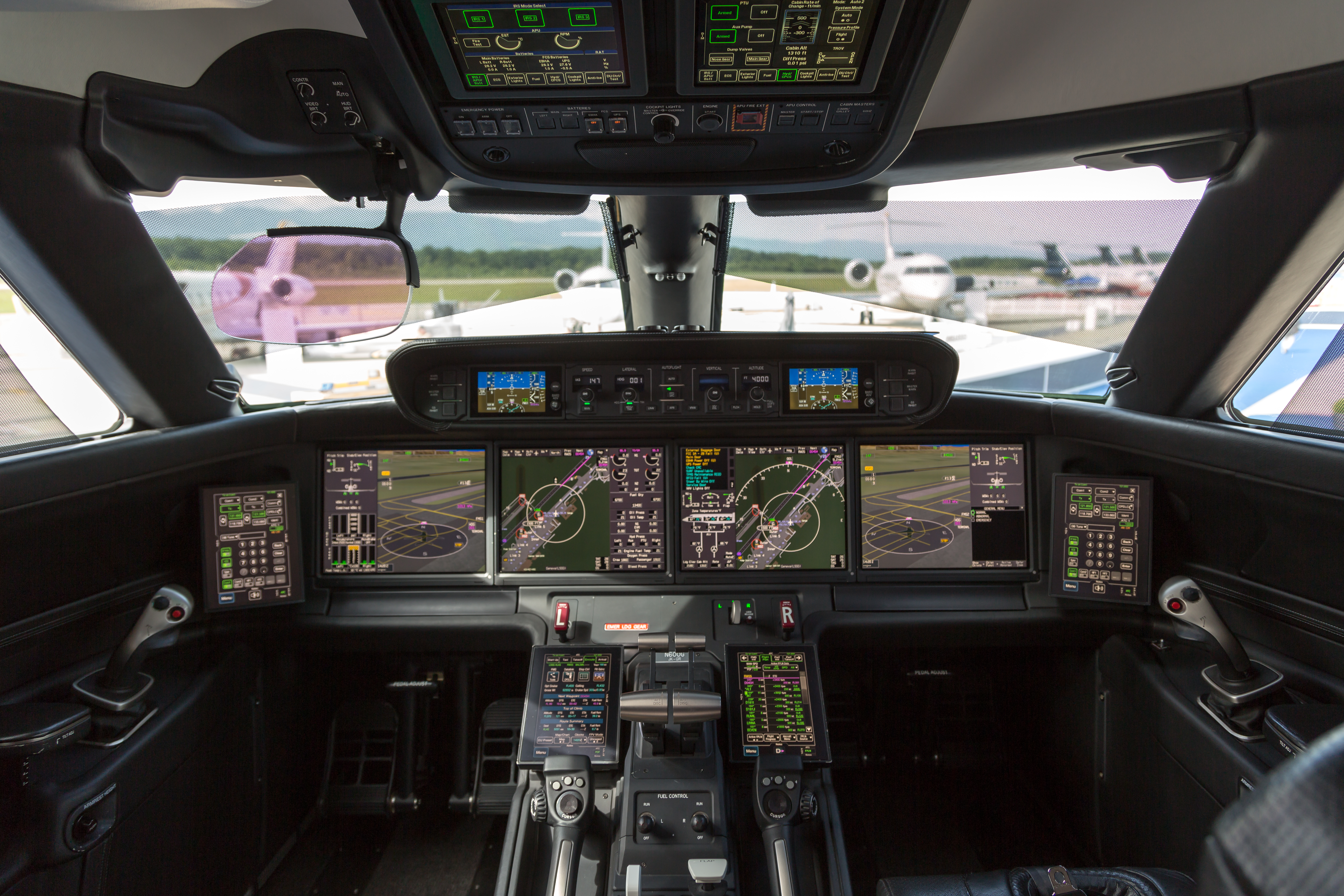 Gulfstream G600, EBACE 2018